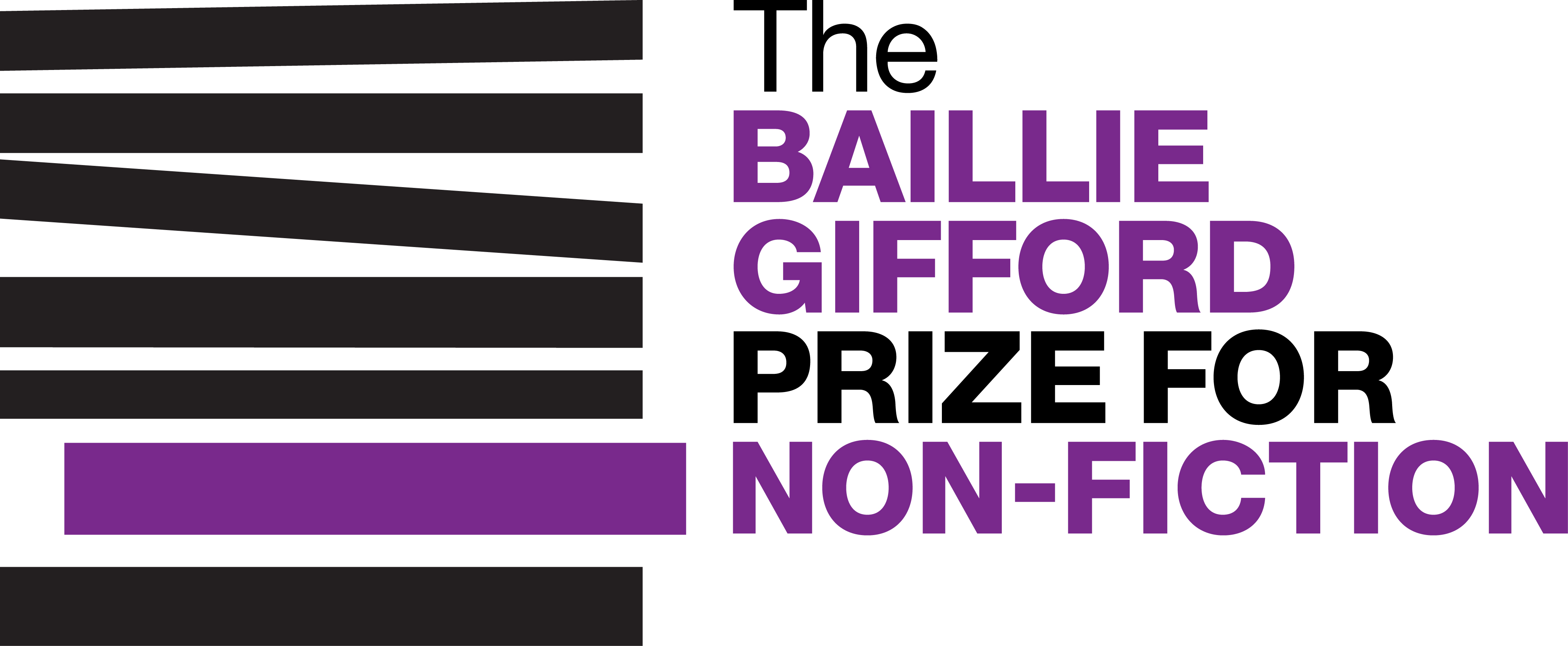 Logo for the Baillie Gifford Prize